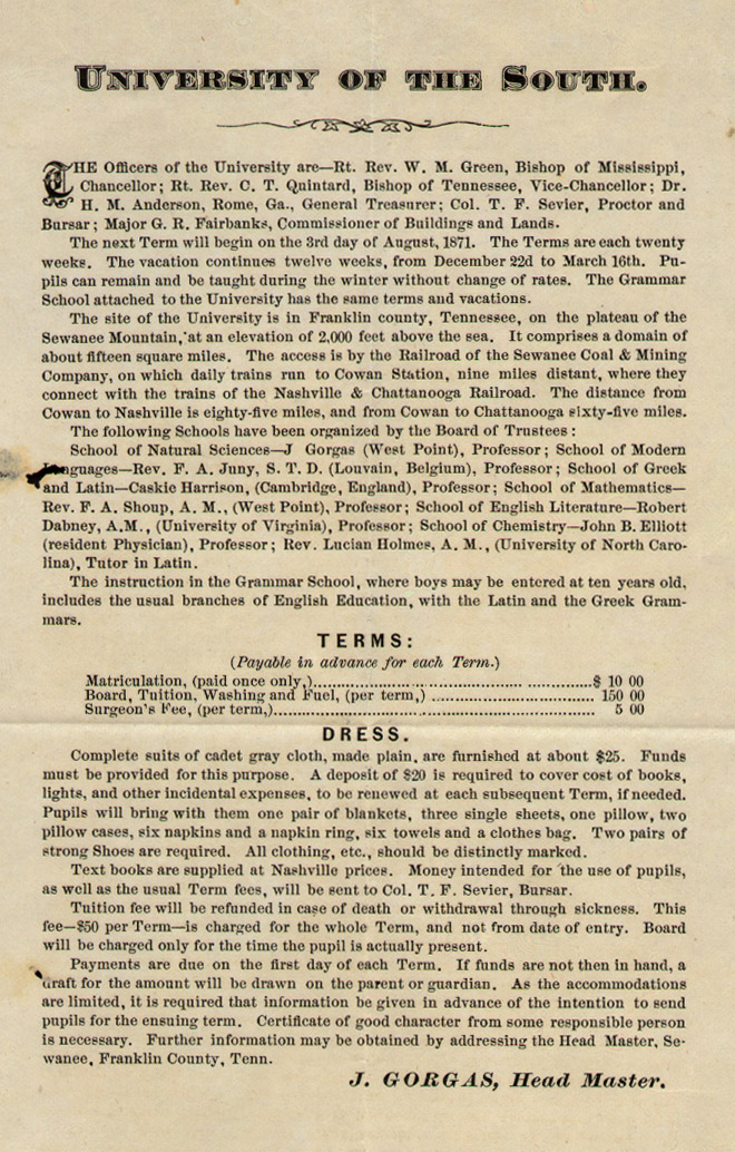 Image first published as promotional material in 1871. kids book From